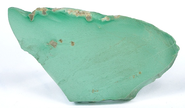 Variscite Locality: Utahlite claim (Lucin Variscite), Lucin, Lucin District, Pilot Range, Box Elder County, Utah, USA (Locality at ) Size: 7.7 x 4.1 x 0.5 cm. A very pretty, pastel-green, polished variscite slab from Lucin, Utah. The slab is broken on the sides and base, but this remains a highly representative example of the species and well-known locale. The beautiful color is very uniform on both sides. Weighs 25 grams.